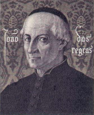 João das Regras (13??-1404)